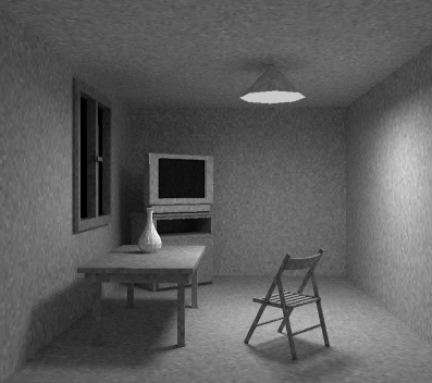 Radiosity with Monte Carlo